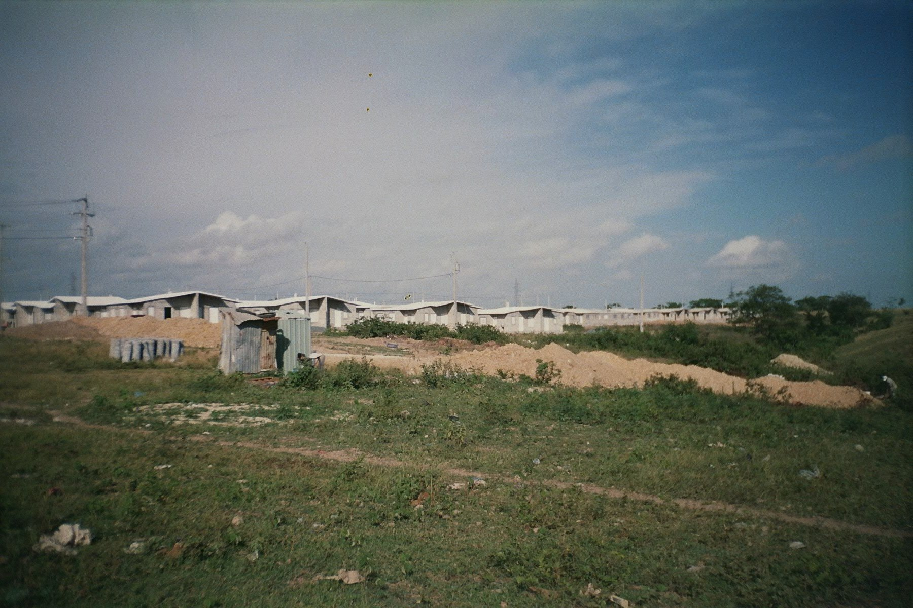 Area of Villa Guerrero (El Seibo, Dominican Republic)